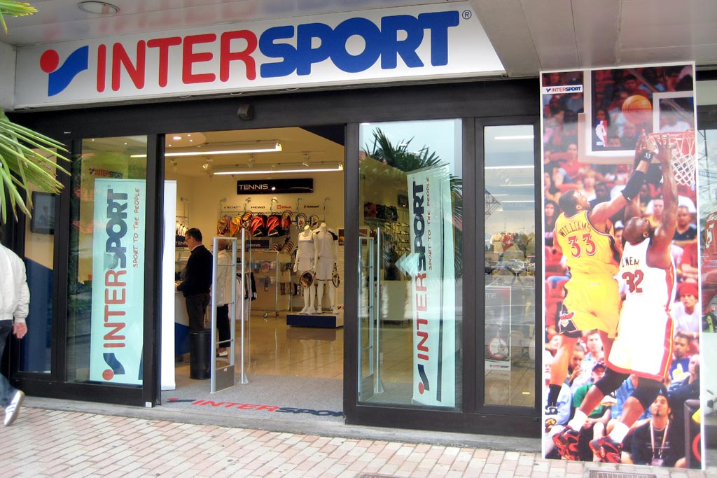 INTERSPORT store facia in Marghera, Italy